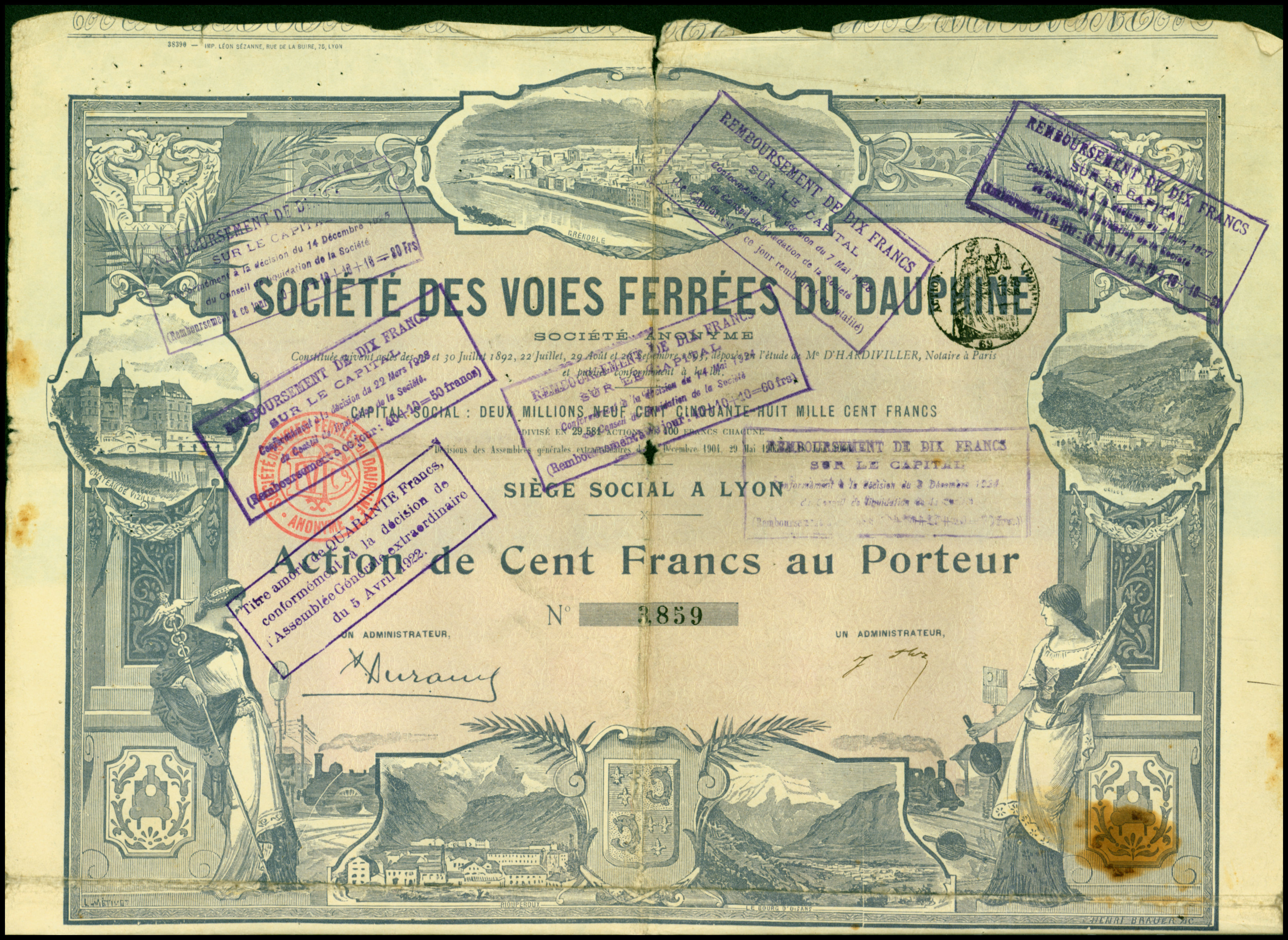 Share of the Société des Voies Ferrées du Dauphine, issued 18. July 1906